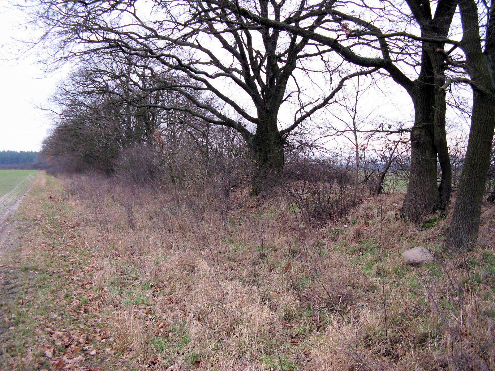 Wall Parchimer Landwehr east of Spornitz, district Parchim, Mecklenburg-Vorpommern, Germany